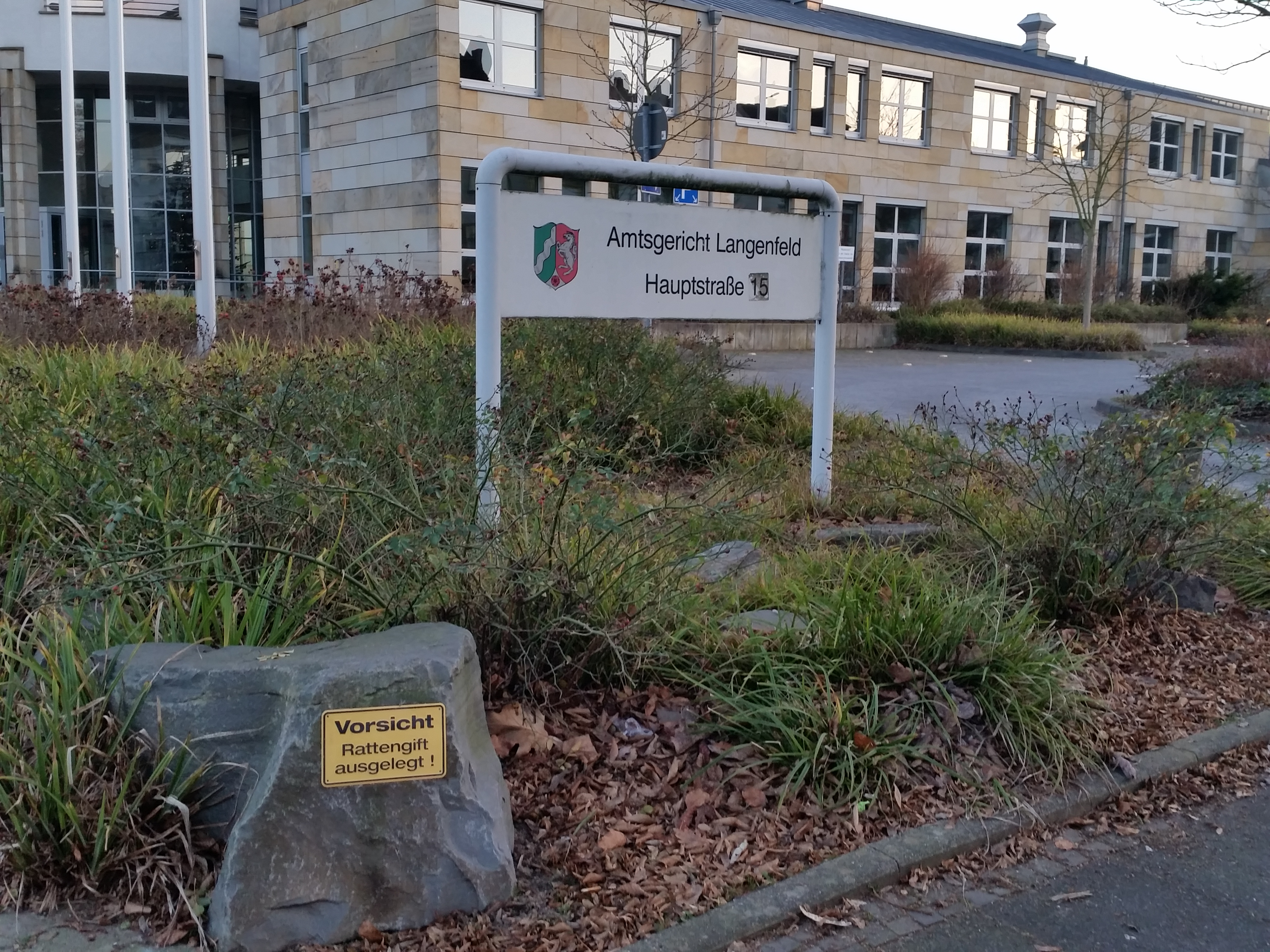 Court of Langenfeld, Rhineland, Germany (south from Düsseldorf)